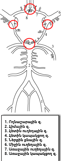 Created by User:PatDi Circulus arteriosus.